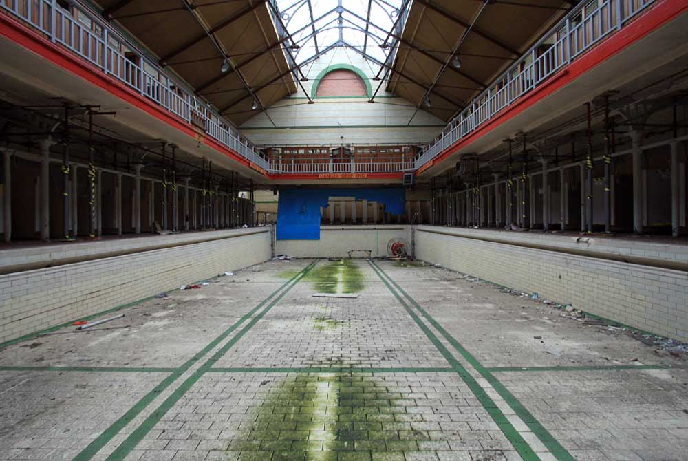 The decline and closure of Harpurhey Baths It was not really until after the First World War that bathing became a habit. By that time most of the houses being built had their own bathrooms where baths could be taken in ease and comfort. This improvement in housing meant that public facilities were no longer required for sanitary purposes. Similarly, relative cheapness and availability of domestic appliances meant that laundries also fell into decline. Manchester City Council closed all its laundries in the early 1980s. Harpurhey Baths finally closed completely in 2001 after serious defects were discovered in the building’s walls and machinery. Cracks in the baths’ walls that had previously been repaired had widened beyond repair and some of the walls were bowing. There were also problems with the baths’ steam boilers and the drainage system. The North City Family and Fitness Centre, incorporating a 25 metre swimming pool, was due to open 18 months later nearby on Moston Lane, making running repairs to the baths, which would have cost £3m, unfeasible.